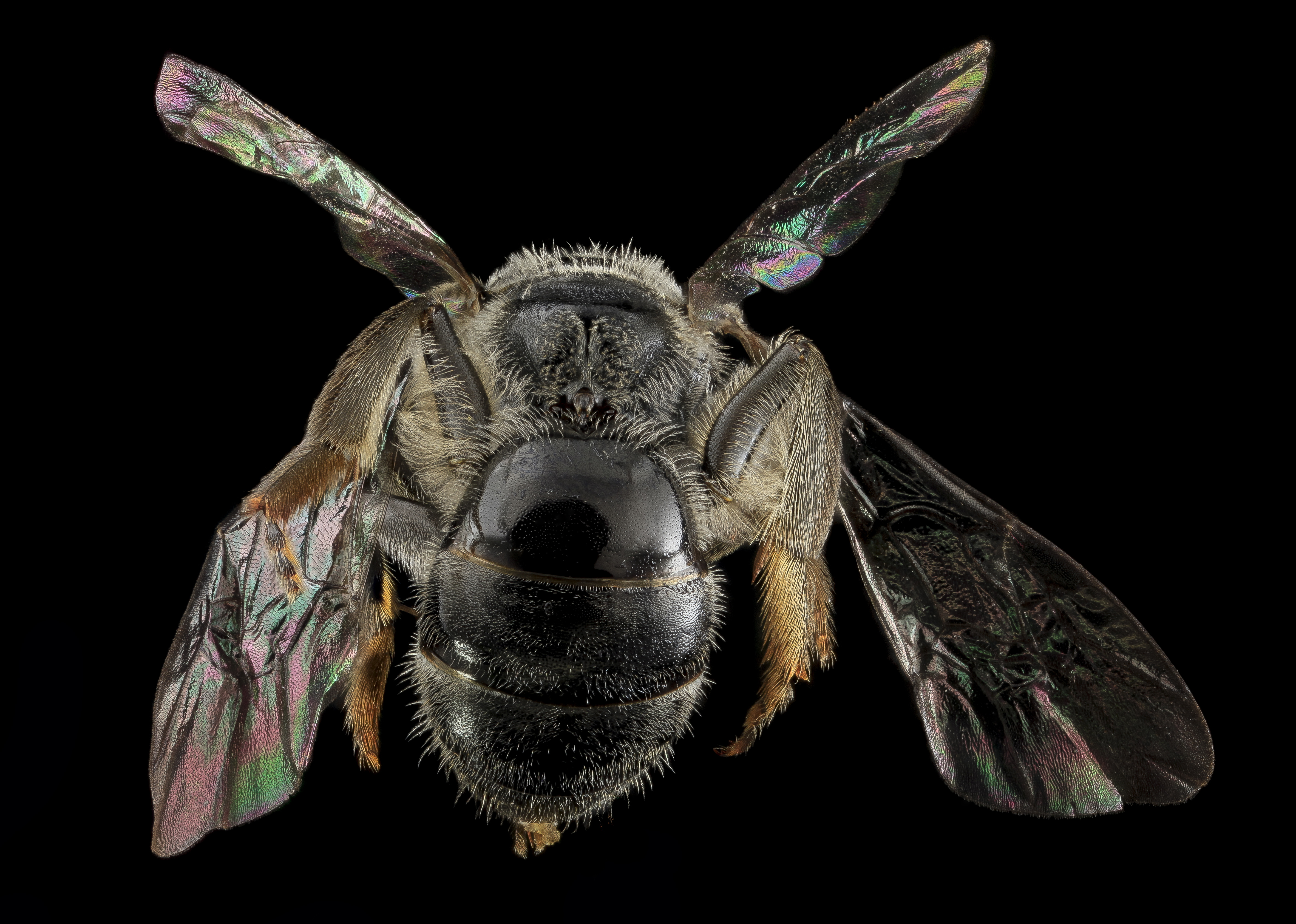 Lasioglossum pectinatum, Maryland , Washington County. One very rare bee, this is the first one I have seen a specimen of from the state